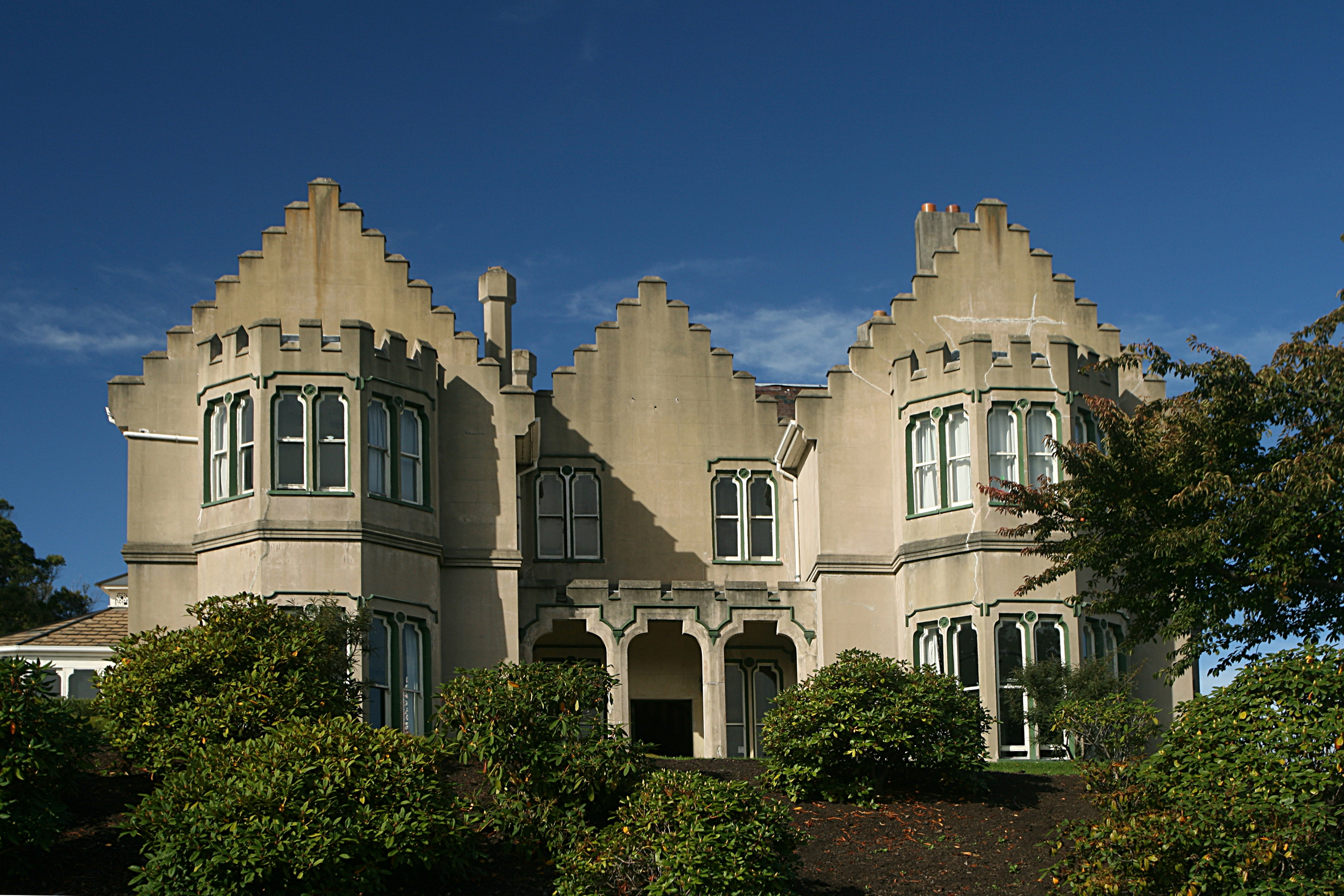 Castlamore, Lovelock Avenue, Dunedin, New Zealand, designed by F.W.Petre. New Zealand Historic Places Trust Register number: 2184